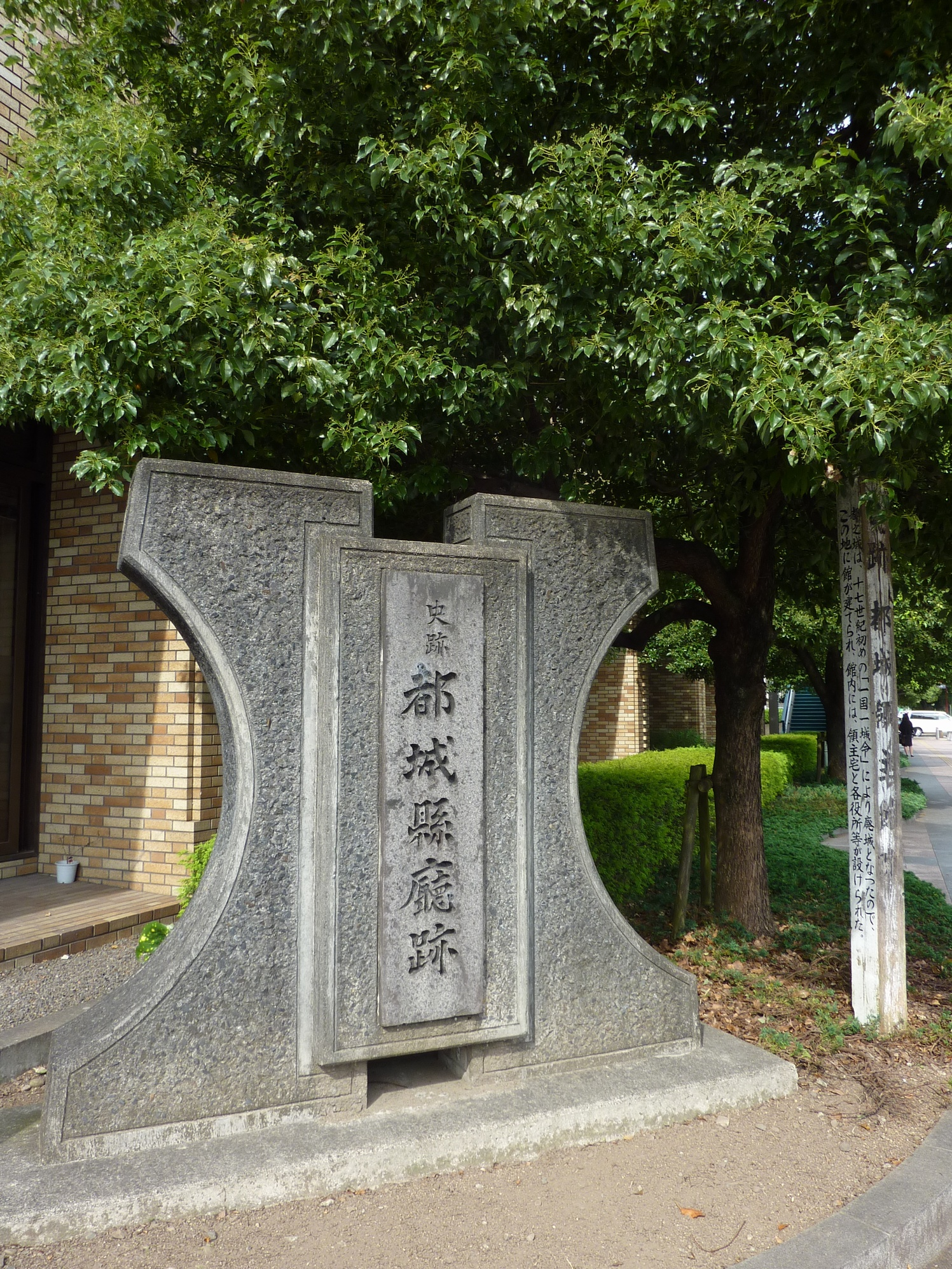 The Site of Miyakonojo Prefectural Office (1872-1873). Present Miyakonojo City Hall (Miyazaki Prefecture, Japan).